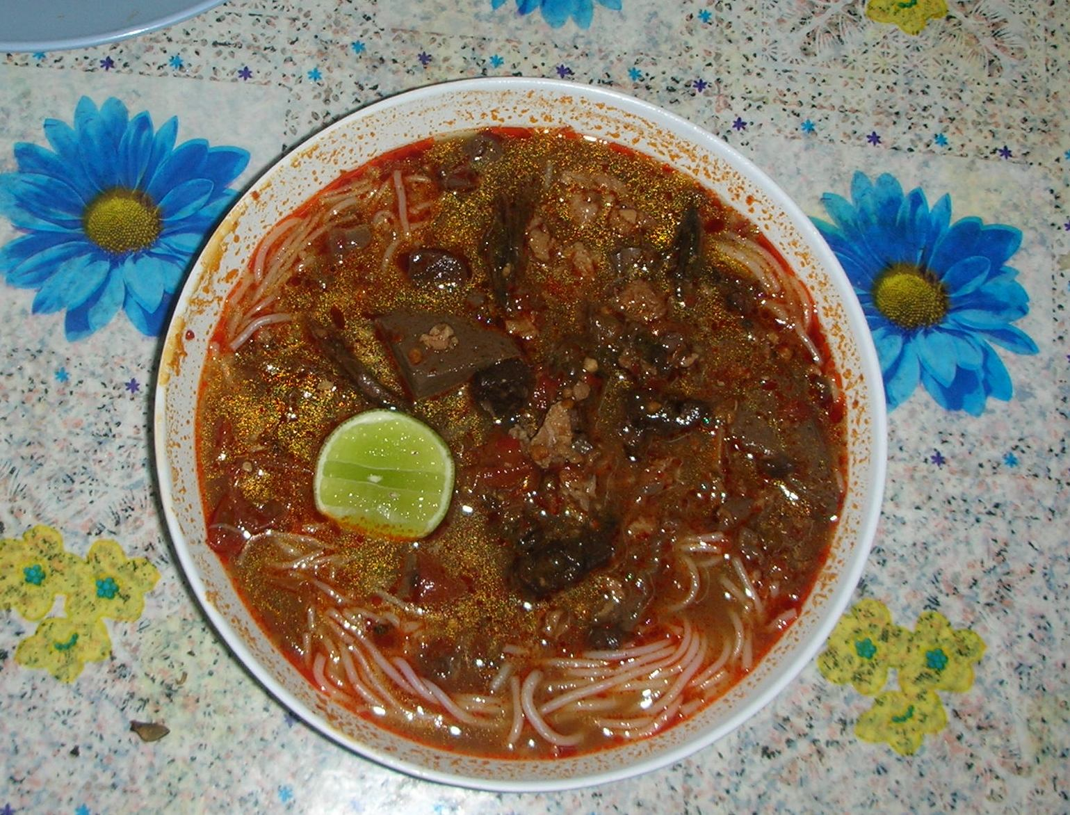 Standard Nam ngiao served at the Chiang Rai Witthayakhom School cafeteria, Chiang Rai, North Thailand